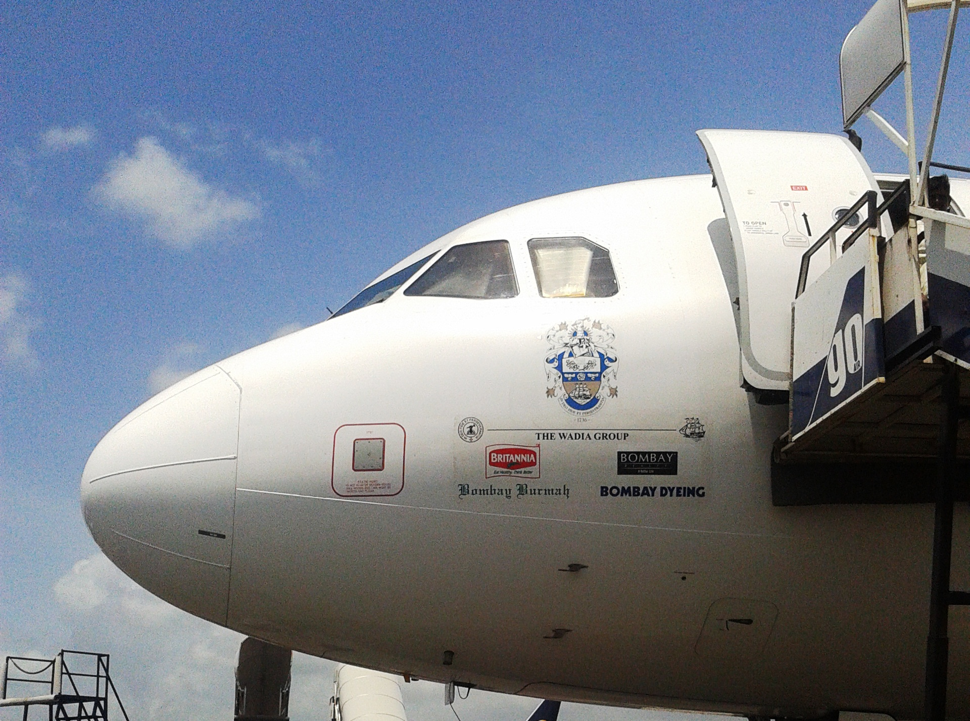 Detail of a GoAir aircraft nose showing the Wadia conglomerate's companies